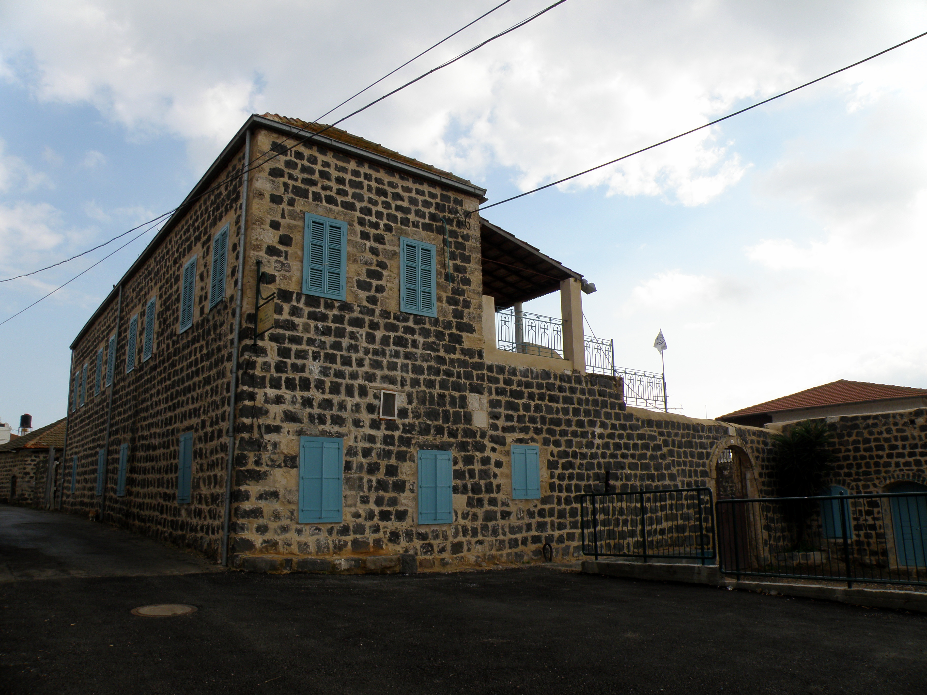 Typical house in Kfar Kama